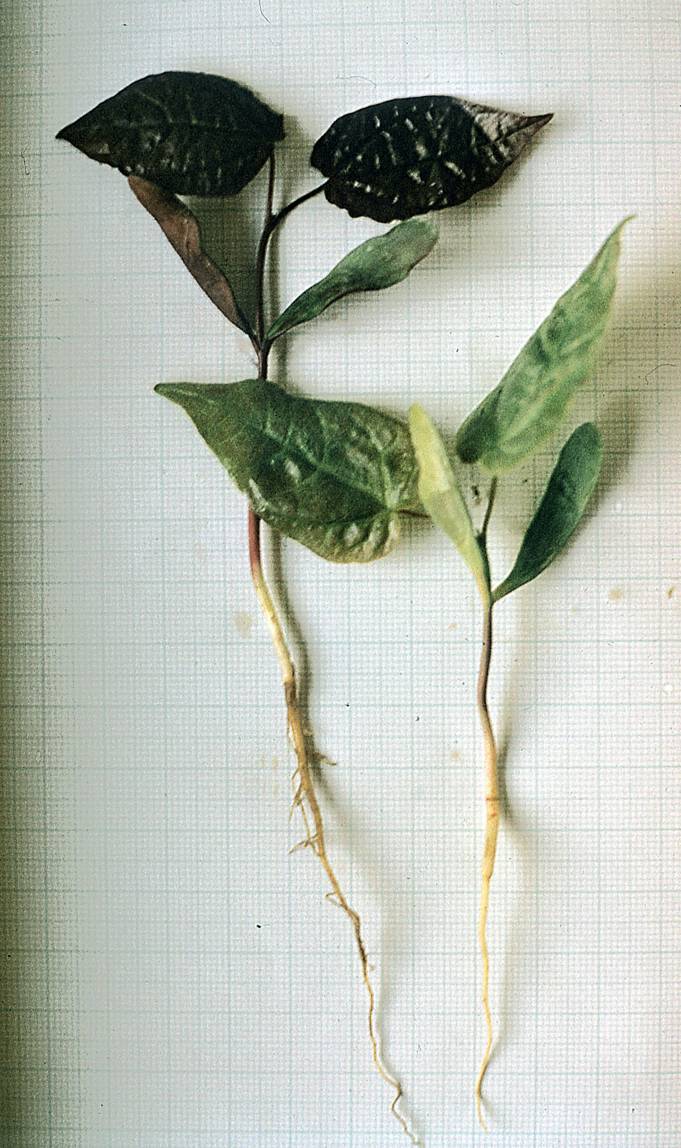 Acer platanoides seedlings